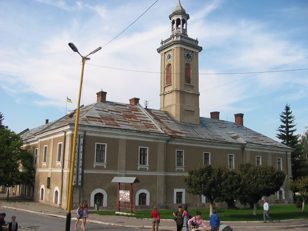 City Hall in Berezhany, western Ukraine. Former Gymnasium (College)